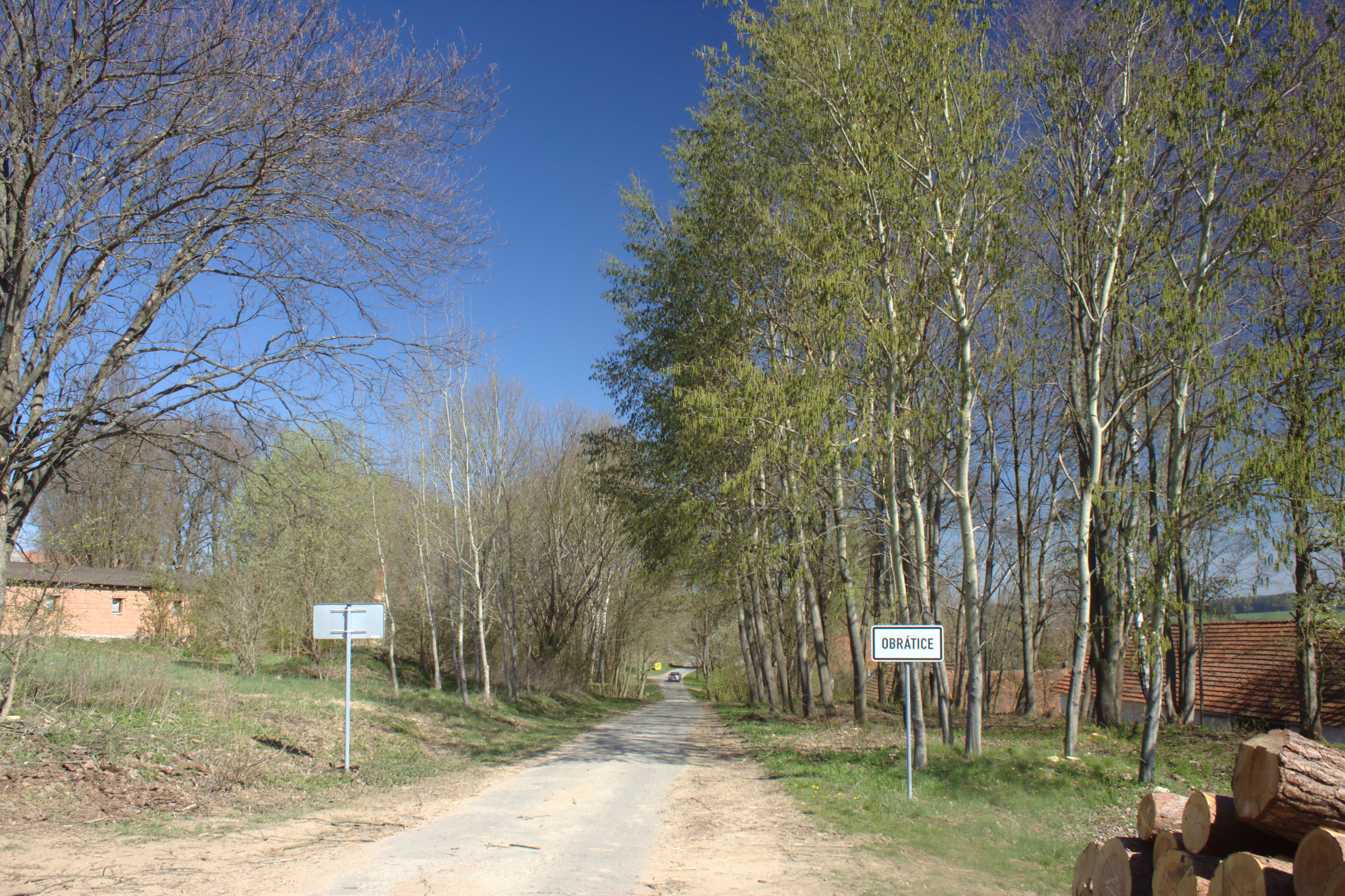 This photograph was created as a part of Wikiexpedition Mladá Vožice, a project supported by Wikimedia Foundation grant.